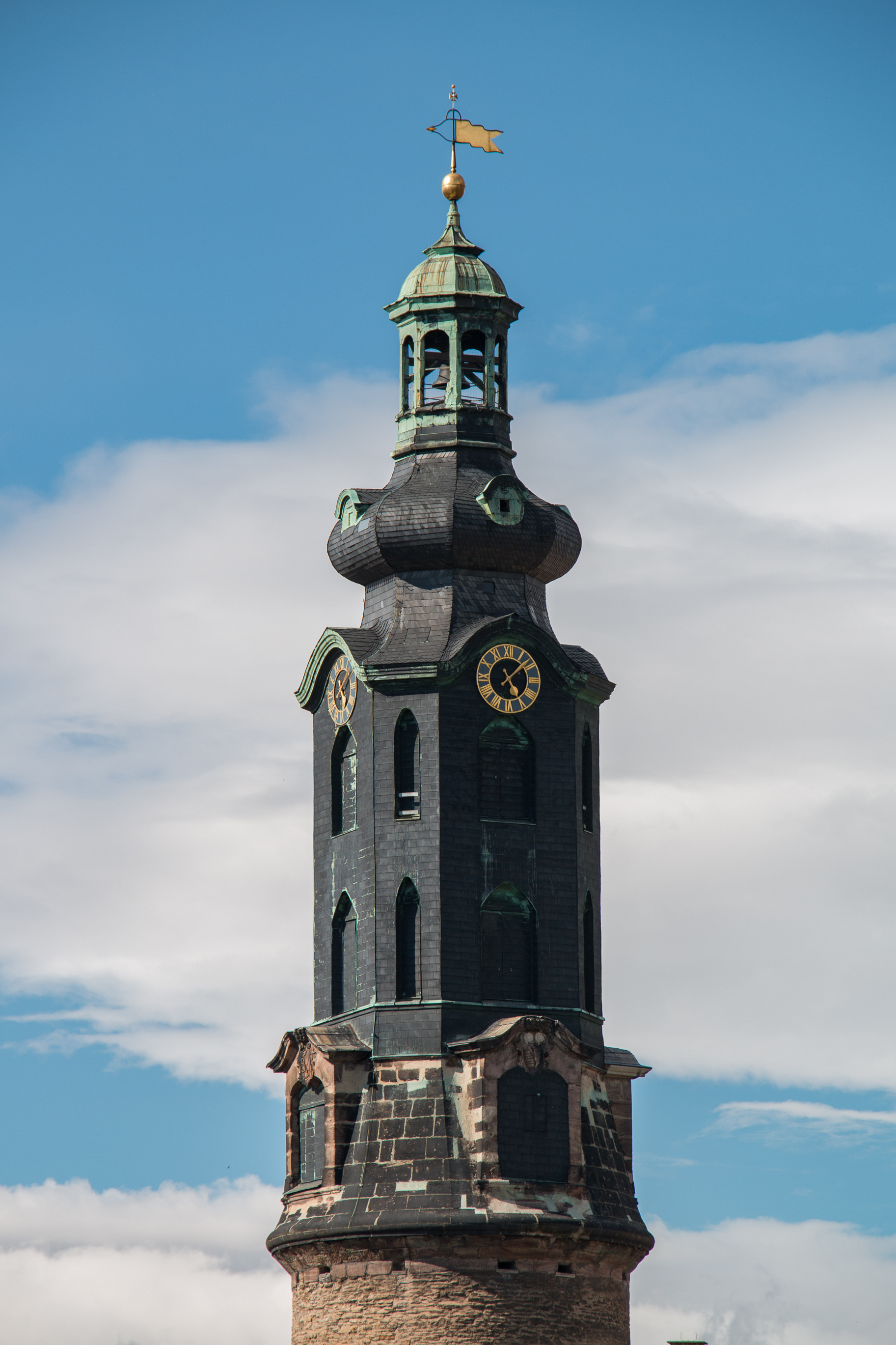 Tower of the Weimarer Stadtschloss